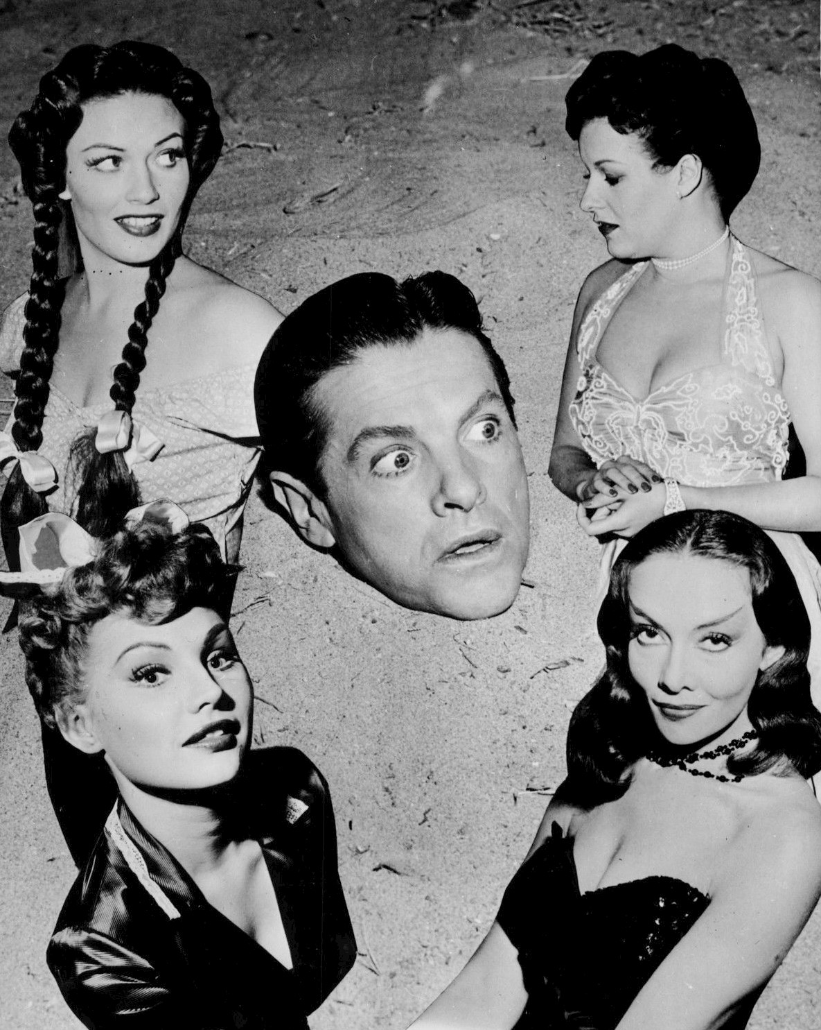 Promotional photo for the early comedy series My Hero. Bob Cummings played Robert S. Beanblossom, a real estate agent who became caught up in his own good intentions. The series aired from 1952 to 1953 on NBC.